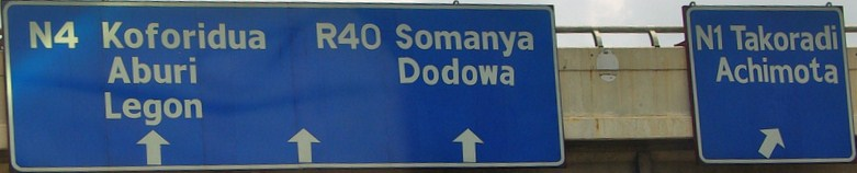 N4 highway road sign in Ghana